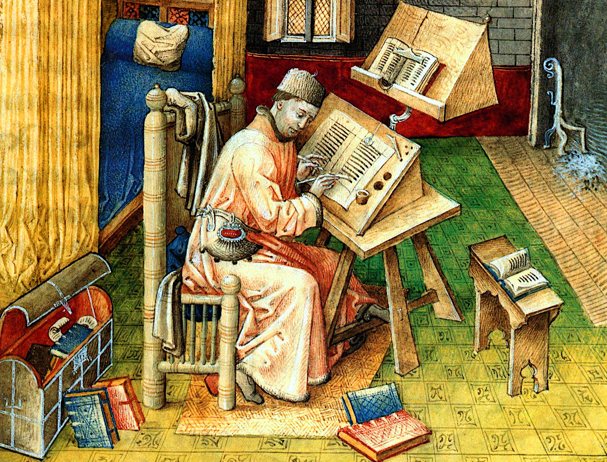 Jean Miélot at his desk